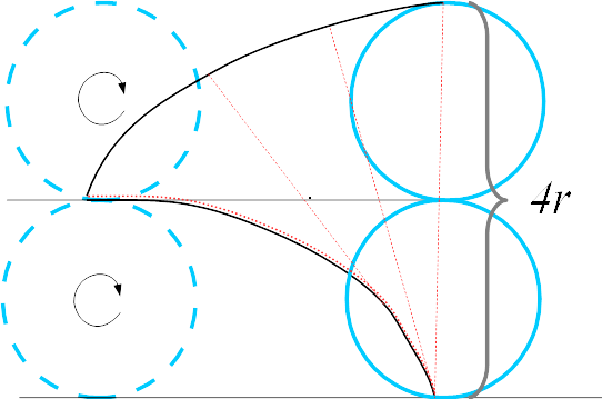 Schematic of length calculation of a cycloid